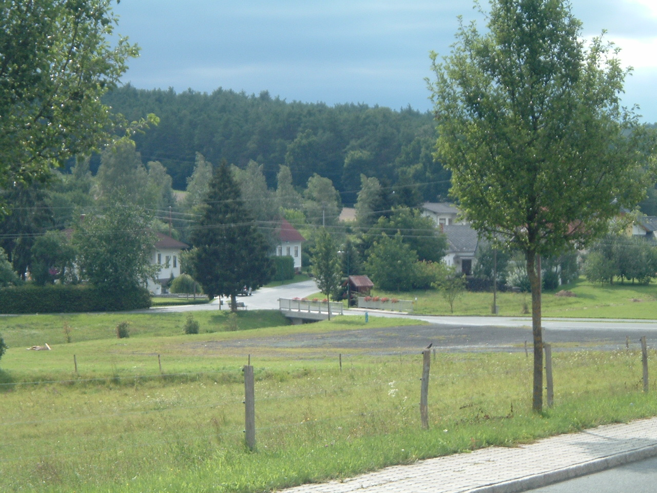 Harmisch (Hovárdos), Burgenland